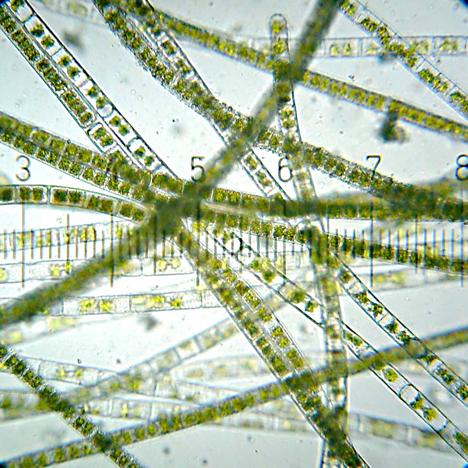 Zygnema. 10× objective, 15× eyepiece; numbered ticks are 122 µM apart.